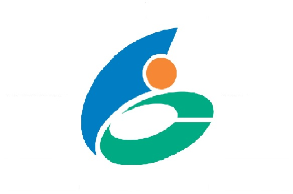 Flag of Nikaho Akita